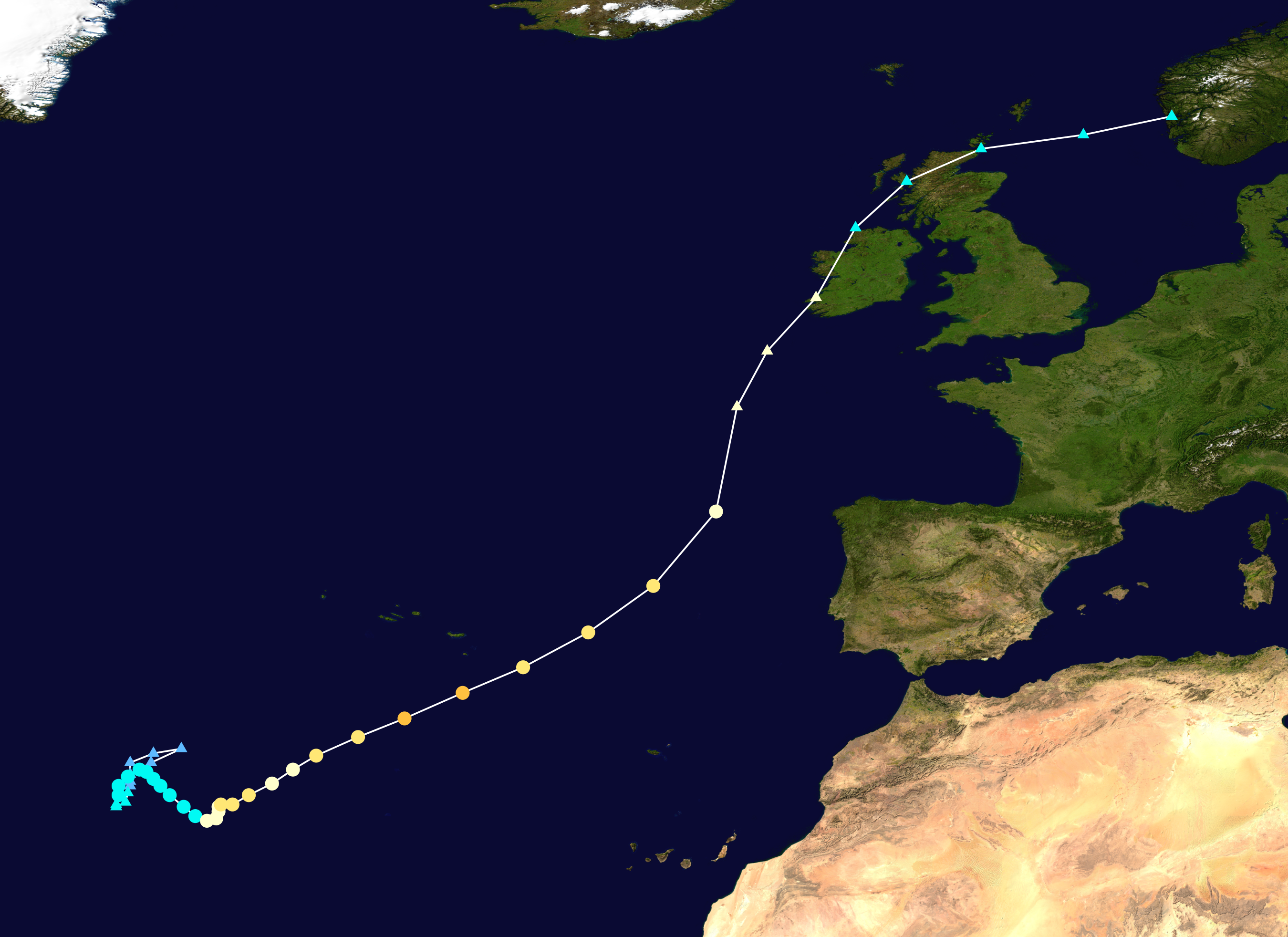 Track map of Hurricane Ophelia of the 2017 Atlantic hurricane season. The points show the location of the storm at 6-hour intervals. The colour represents the storm's maximum sustained wind speeds as classified in the Saffir–Simpson scale (see below), and the shape of the data points represent the nature of the storm, according to the legend below. Saffir–Simpson scale Tropical depression≤38 mph≤62 km/h Category 3111–129 mph178–208 km/h Tropical storm39–73 mph63–118 km/h Category 4130–156 mph209–251 km/h Category 174–95 mph119–153 km/h Category 5≥157 mph≥252 km/h Category 296–110 mph154–177 km/h Unknown Storm type Tropical cyclone Subtropical cyclone Extratropical cyclone / Remnant low / Tropical disturbance / Monsoon depression